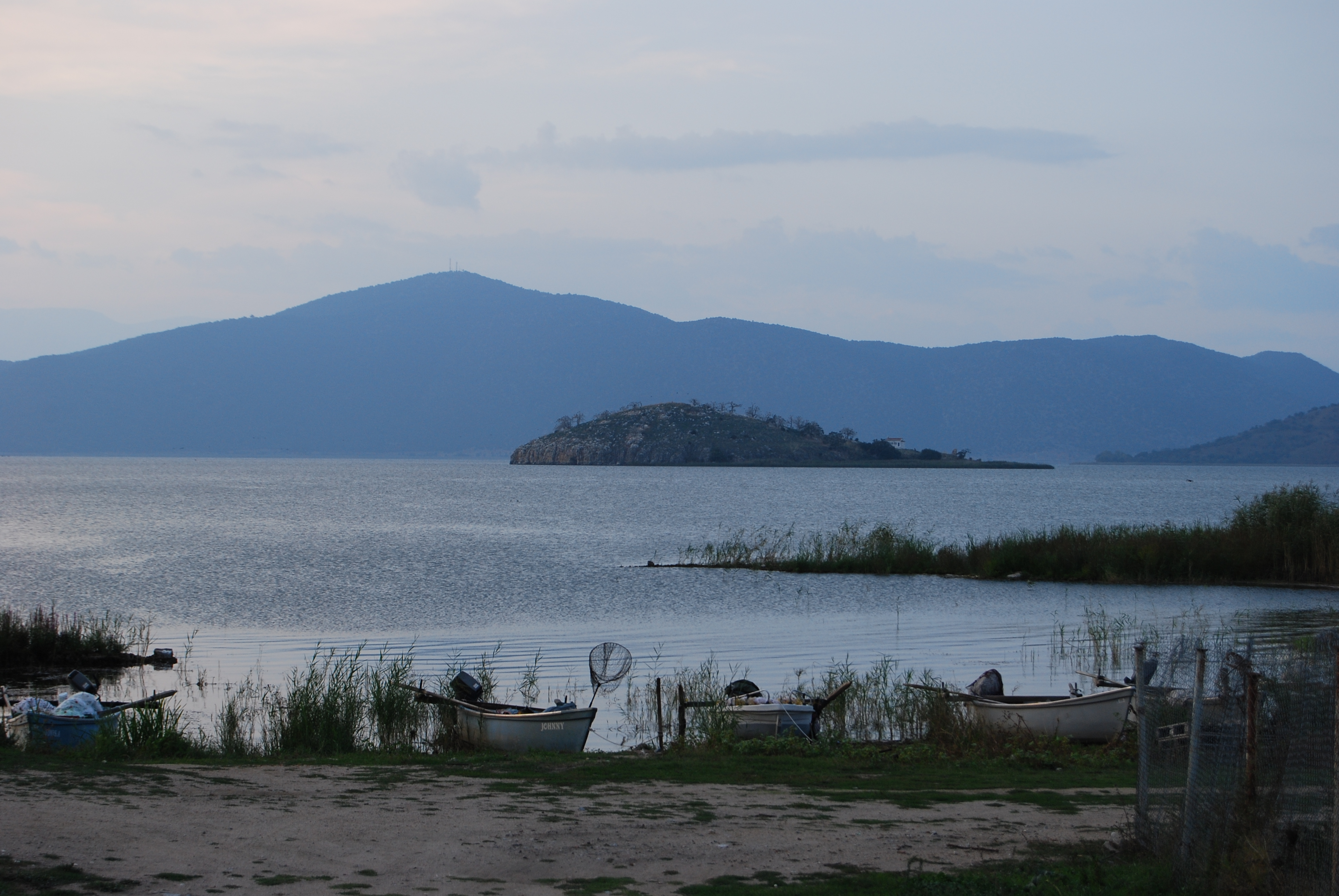 Island of St.Ahil from Mikrolimni/Langi, Greece